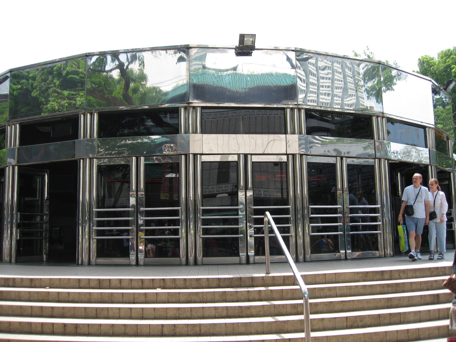 Orchard MRT Station Exit C.